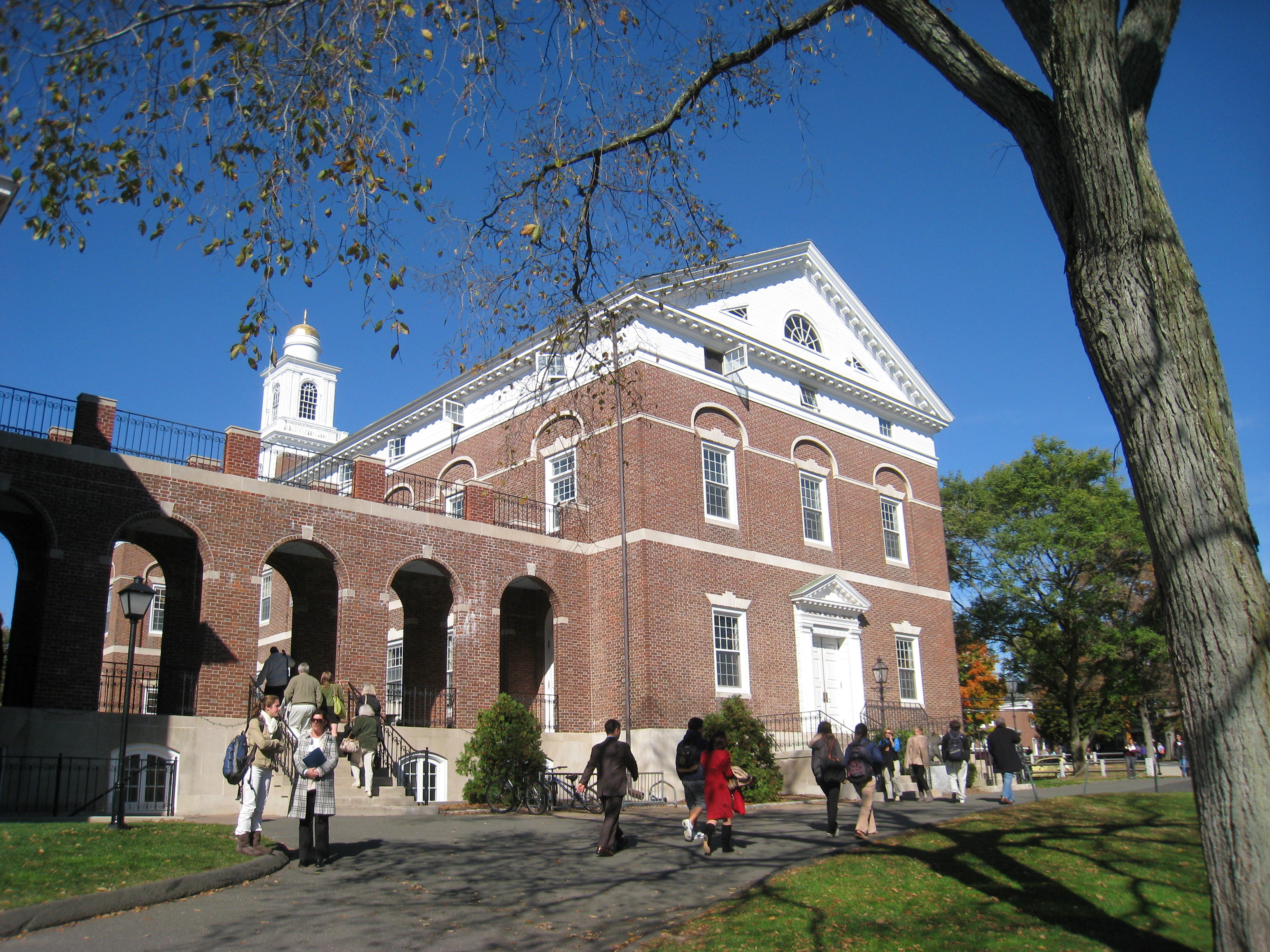 Andrew Mellon Library, Choate Rosemary Hall, Wallingford, Connecticut, USA. Built 1925.